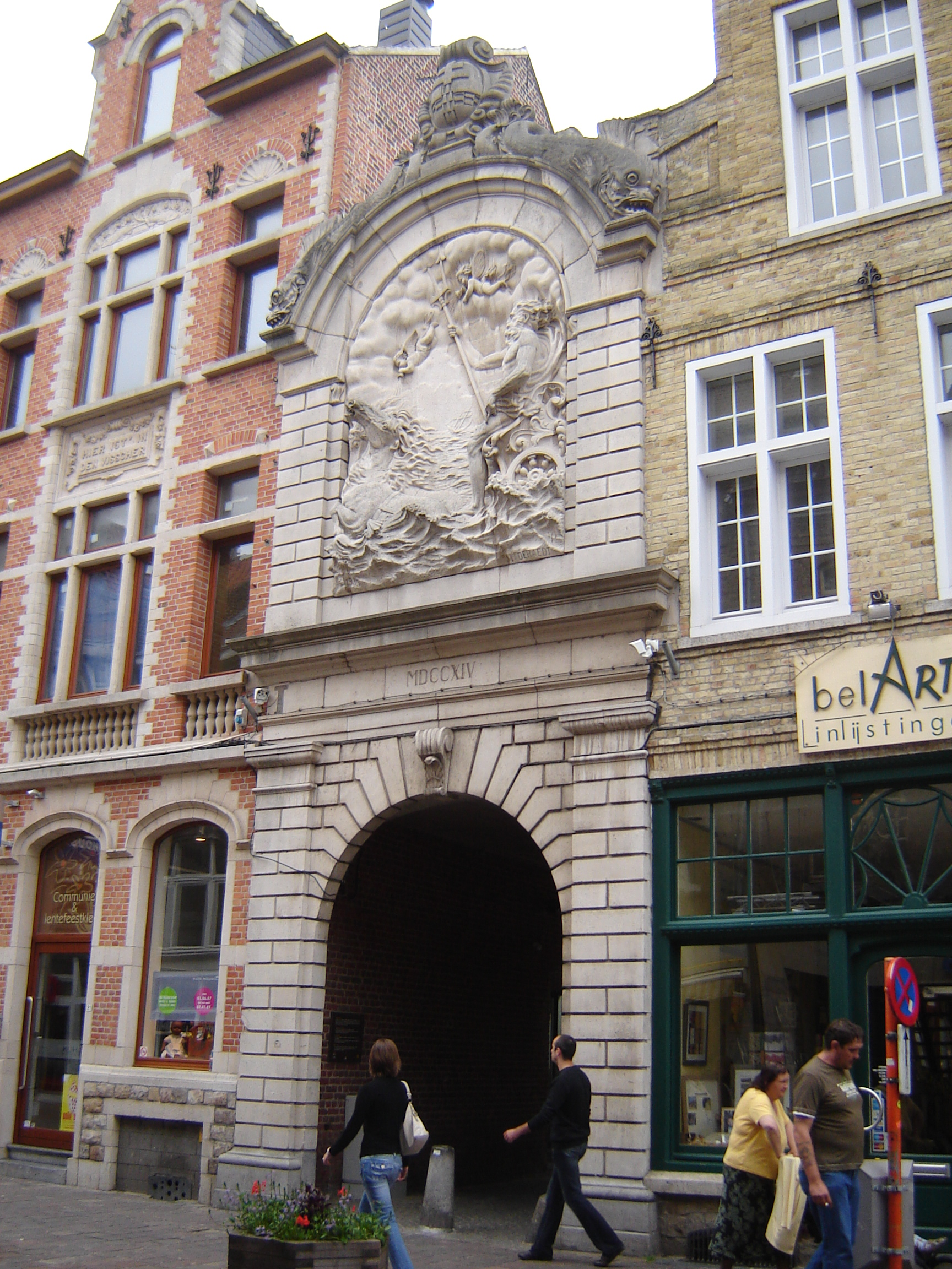 Vispoort gate in Ieper, West Flanders, Belgium